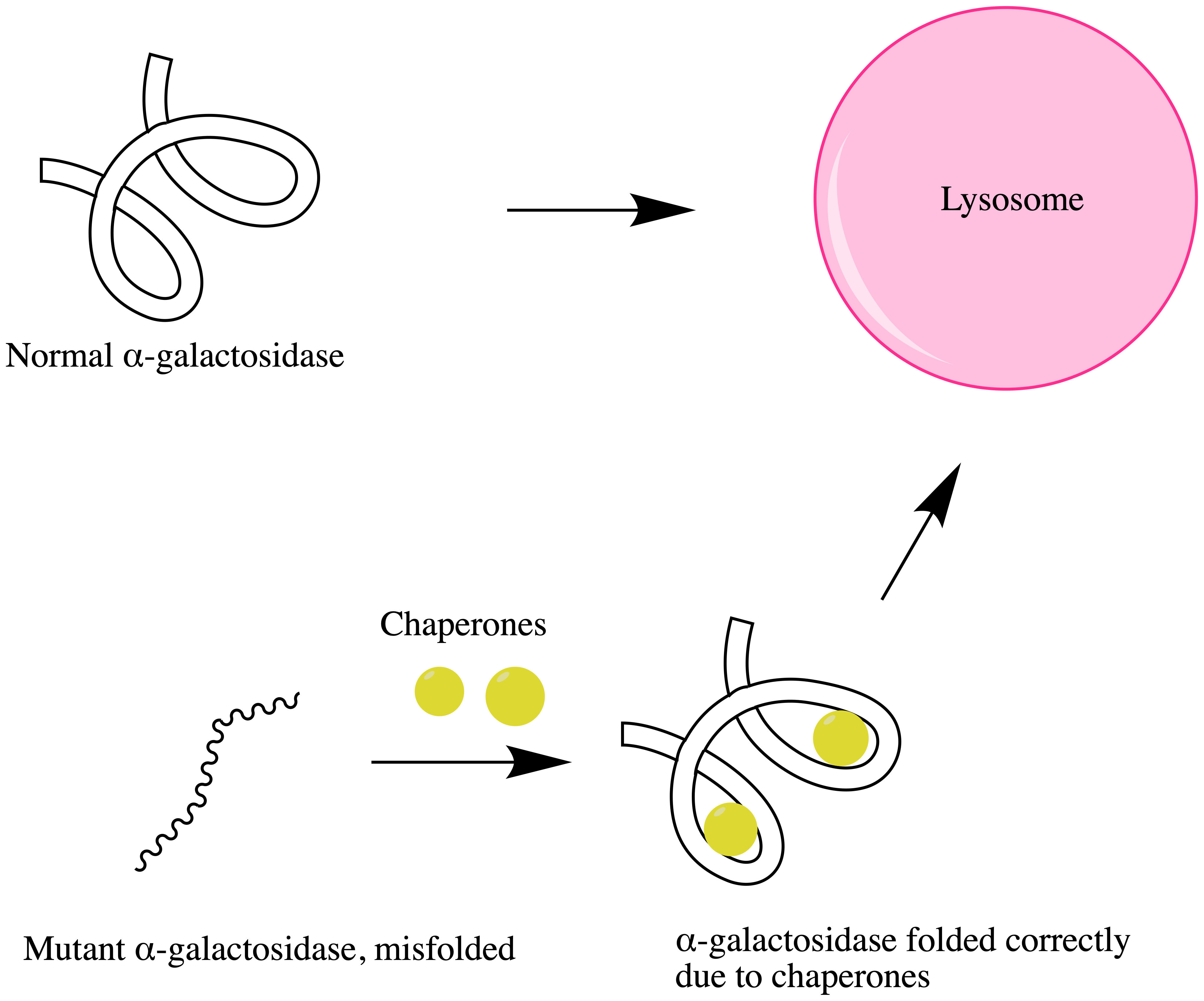 (Caption taken from Frucstaci et al, 2001[1]) "Panel A shows the processing of normal α-galactosidase A. Newly synthesized α-galactosidase A is translocated into the endoplasmic reticulum, where molecular chaperones facilitate its proper folding and dimerization by specialized processing enzymes. The molecular chaperones then dissociate from the folded, dimerized enzyme, which moves to the Golgi apparatus and then to lysosomes, where the enzyme is stable and active in the acidic environment of these organelles. Panel B shows the processing of mutant α-galactosidase A. Most mutations in the α-galactosidase A gene encode α-galactosidase A molecules that are misfolded, misassembled, or aggregated in the endoplasmic reticulum, where they are degraded, presumably by the ubiquitin–proteasome pathway. However, certain missense mutations decrease the stability of the enzyme, but the conformation of the active site is retained. Most of this type of mutant enzyme is degraded in the endoplasmic reticulum. However, these mutant forms of α-galactosidase A may be stabilized by chemical chaperones, such as galactose, that bind to the active site of the enzyme, promote folding, and stabilize the mutant enzyme. Some of the enzyme then reaches the lysosomes, where it retains low levels of activity. In the lysosomes, the accumulated glycosphingolipid substrates displace the chemical chaperones and are hydrolyzed by the enzyme. Modified from Kuznetsov and Nigam[2]"